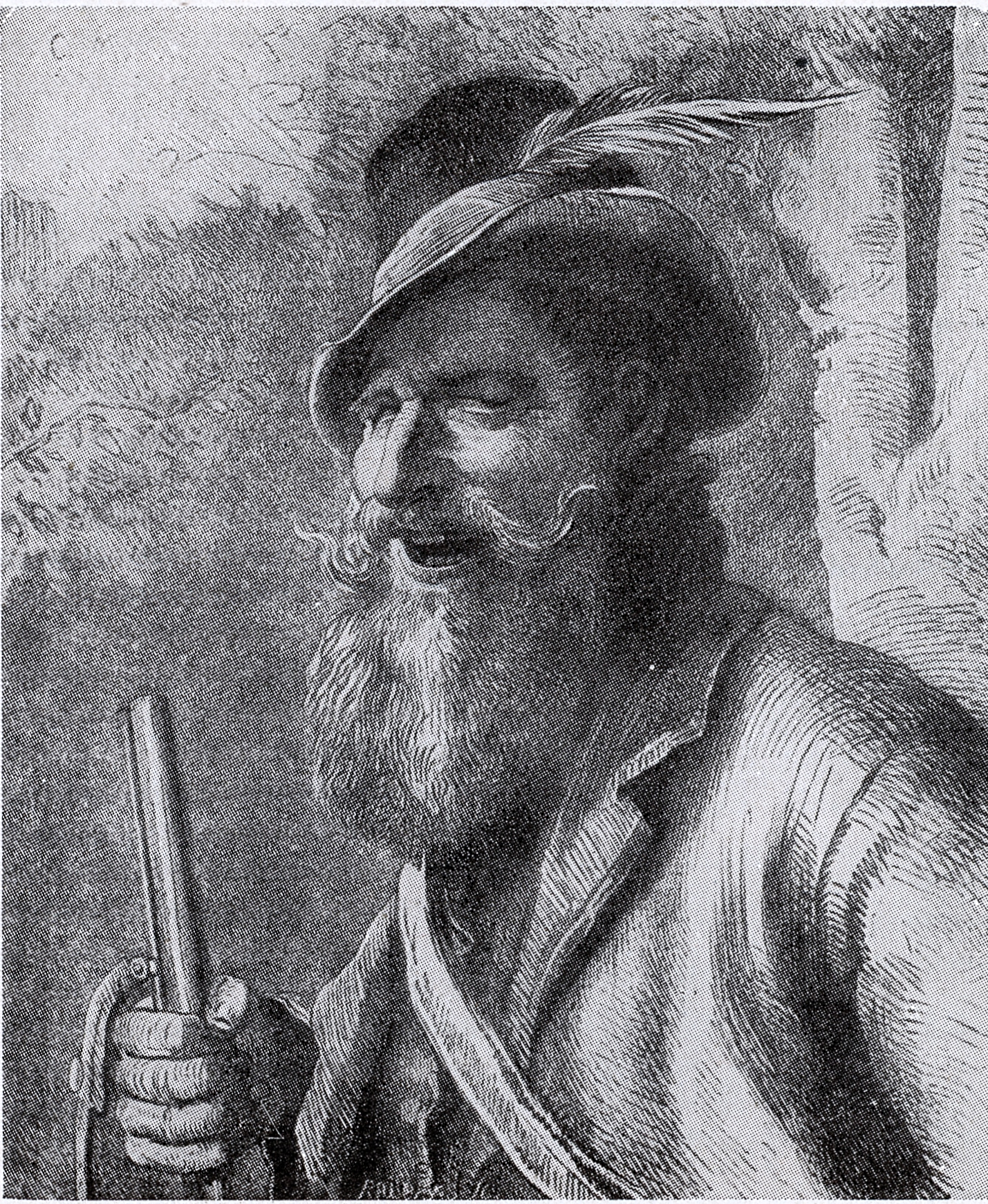 Carl Maria Seyppel (auch Karl Maria Seyppel, 1847 - 1913) Der_Muggel.jpg